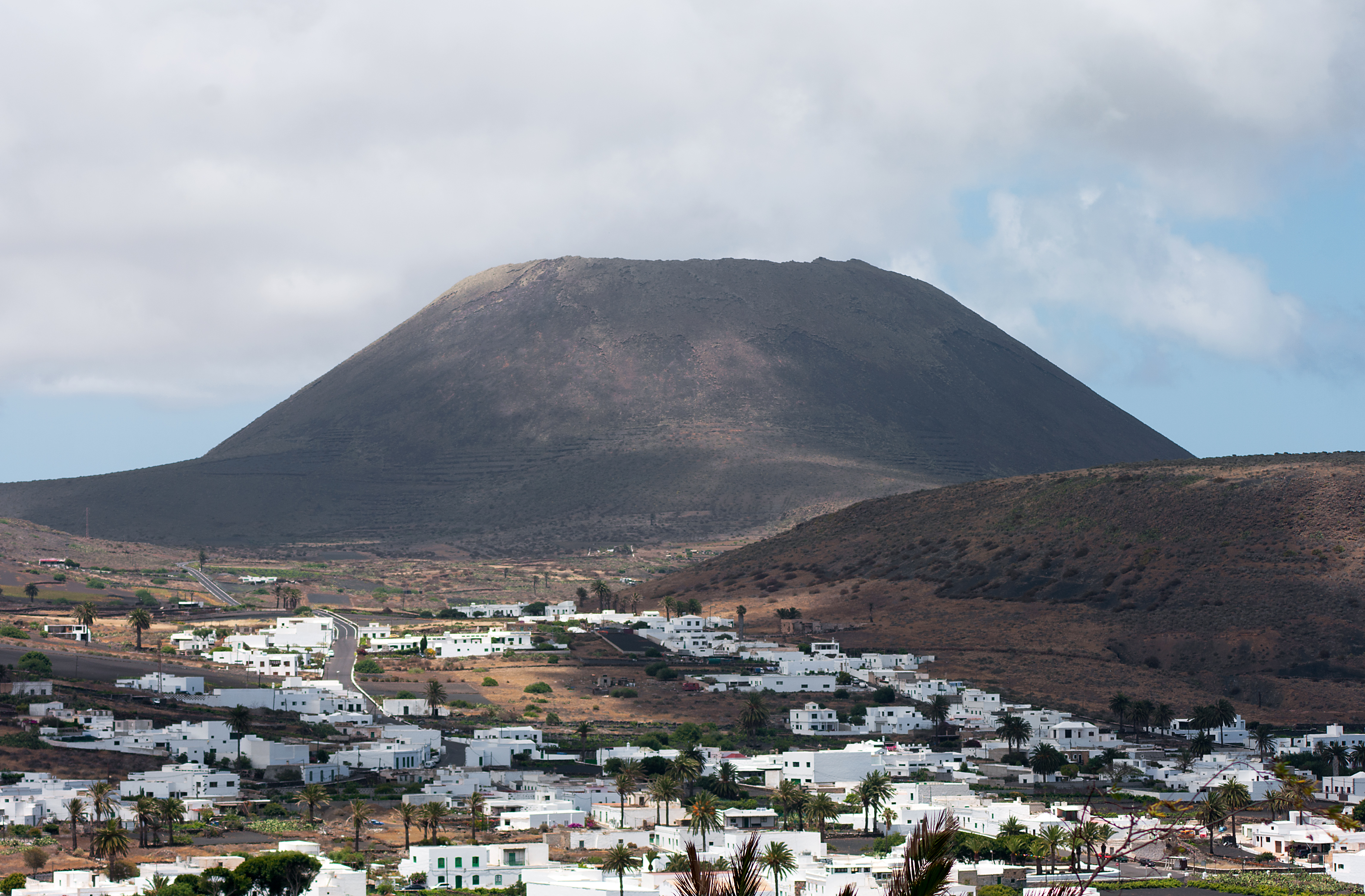 Monte Corona, Lanzarote